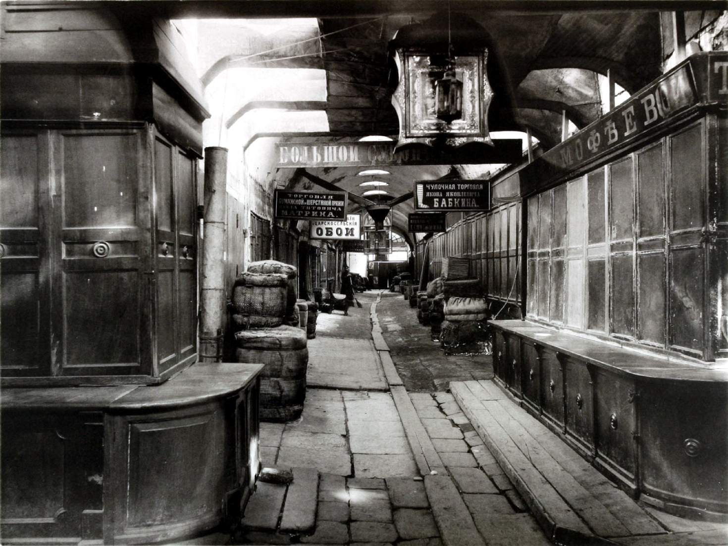 Old trade rows inside the GUM department store. View towards Ilyinka Street. Picture was published in 1890.